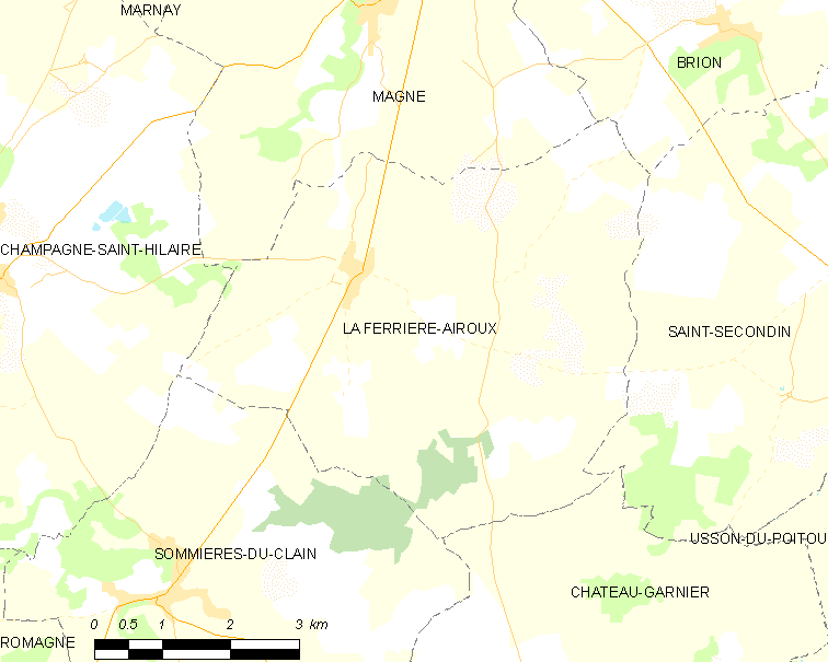 Map of French municipality La Ferrière-Airoux